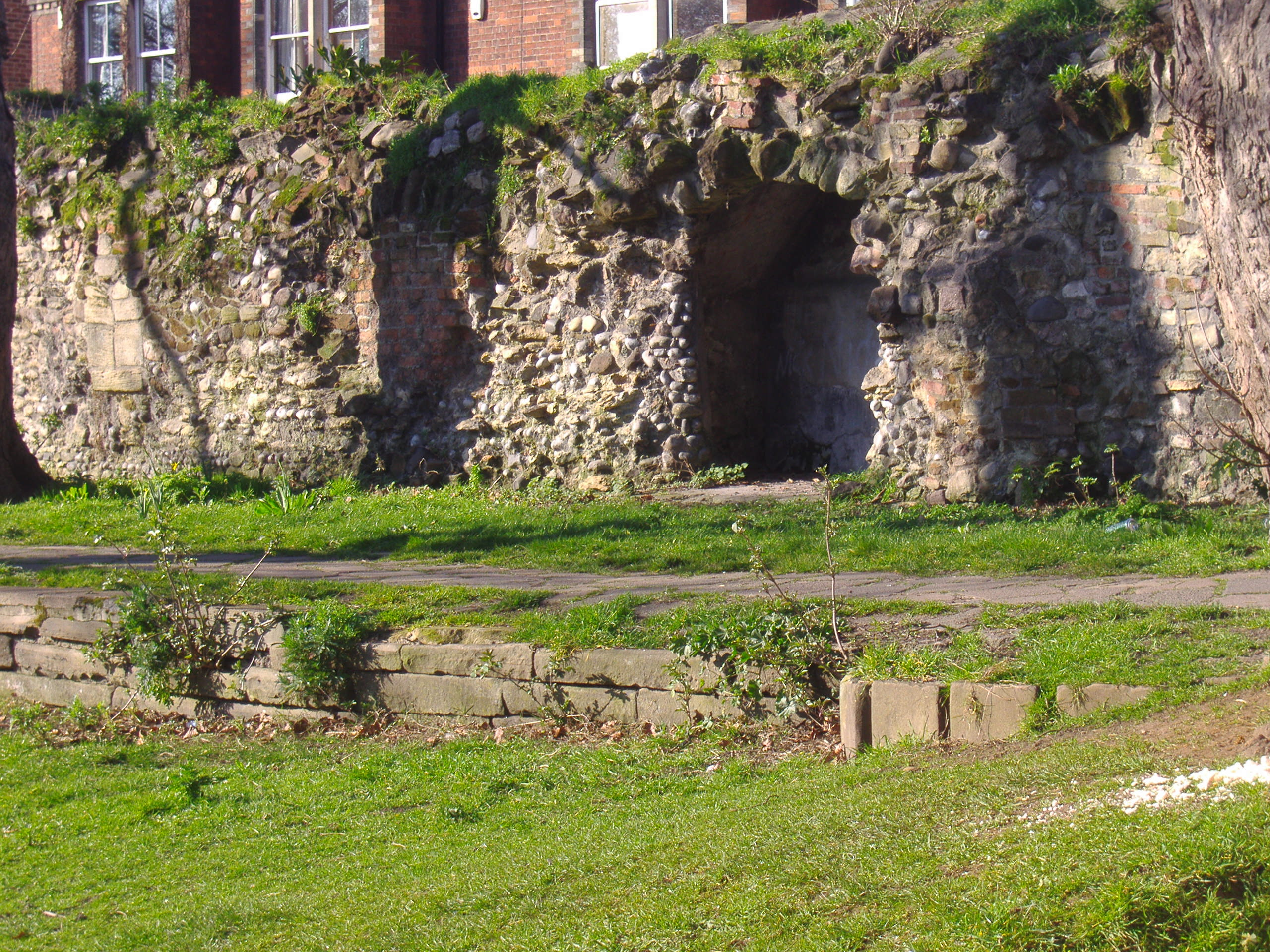 A Digital Photograph of remains of the Kettle watermill Kings Lynn, 12/03/2007